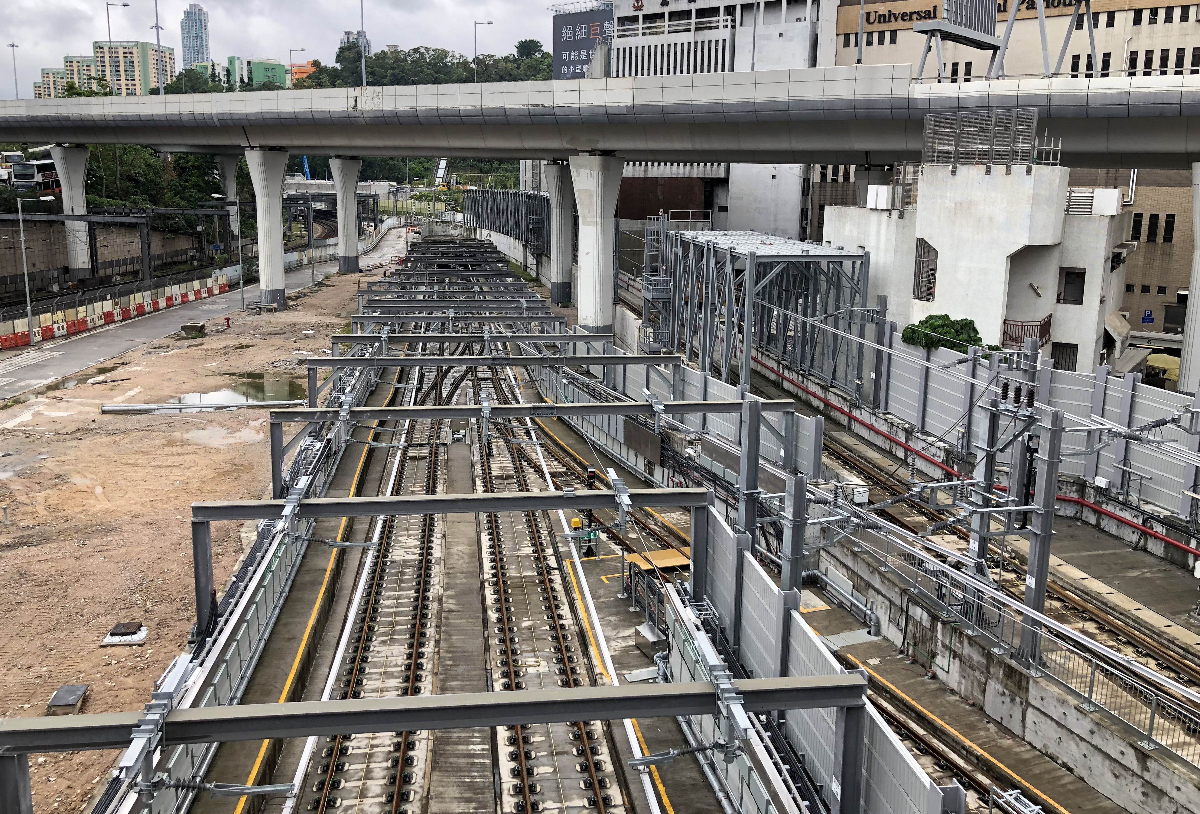 The two central tracks may be Tuen Ma Line, crossed by the top-east track.